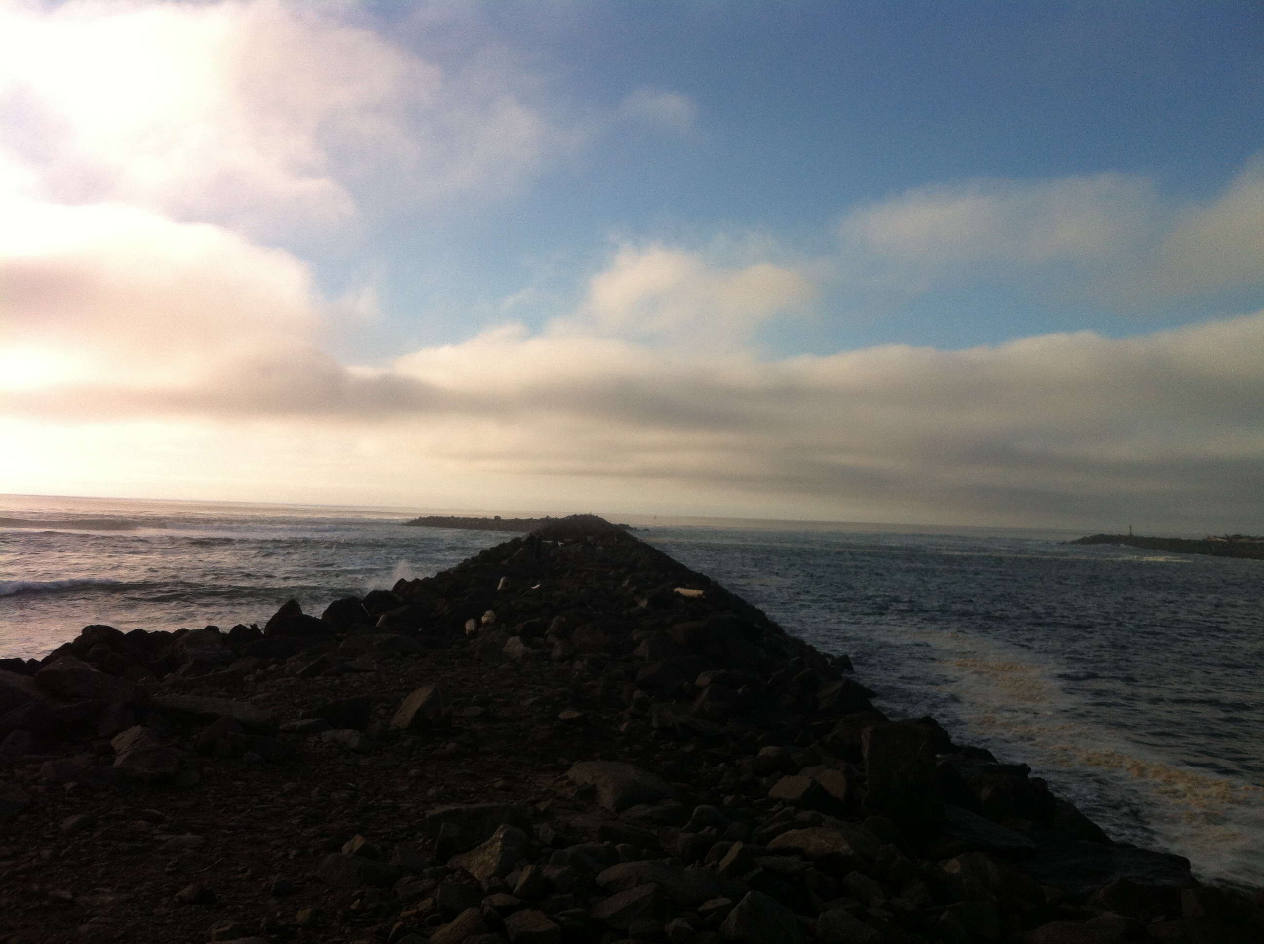 The south jetty on the mouth of the Siuslaw River in Florence, Oregon, United States, dividing the Pacific Ocean (left) from the river (right)